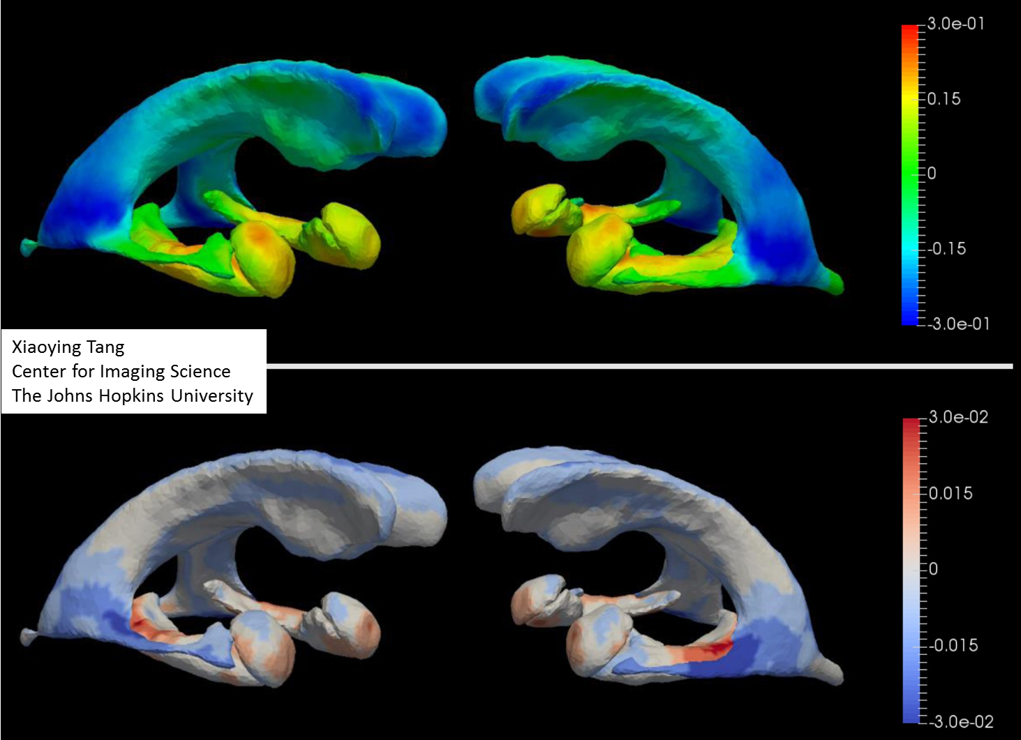 Shown are subcortical structures in top row with ventricles shown bottom row. Superimposed in colors are the statistically significant changes.